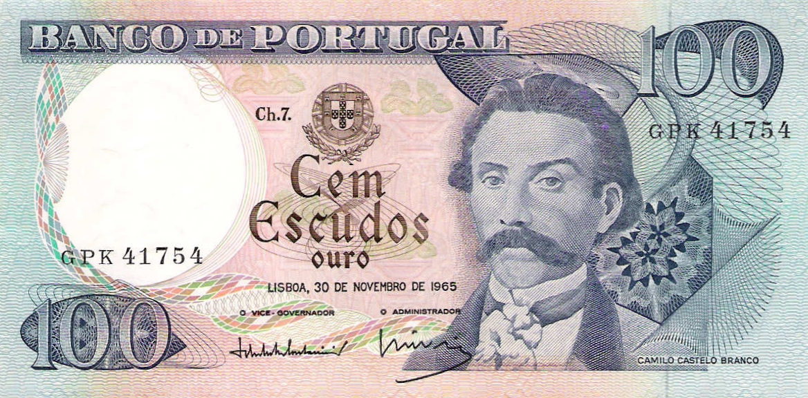 100 PT Escudos Bill Camilo Castelo Branco Front (1965)